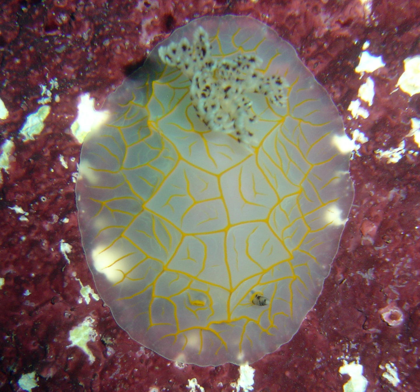 Halgerda guahan Image ID: reef1143, NOAA's Coral Kingdom Collection Location: Guam, Mariana Islands